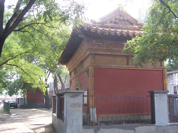 The gate of Enyou Temple and Enmu Temple in Changchun Garden, Beijing 中文（台灣）: 北京暢春園恩佑寺及恩慕寺山門 中文（中国大陆）: 北京畅春园恩佑寺及恩慕寺山门